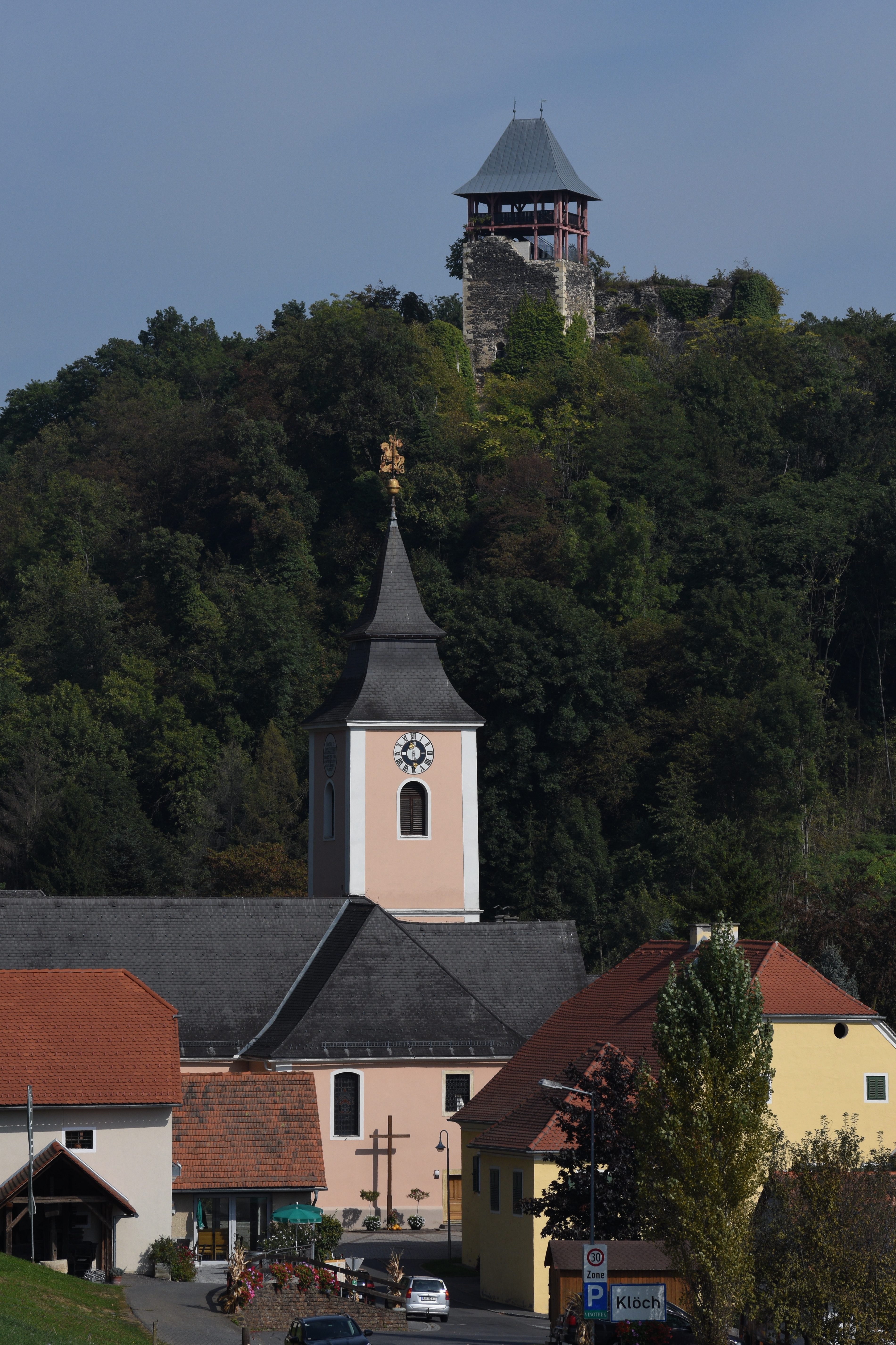 Klöch